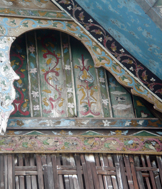 Motifs below the roof of a Rumah Gadang, close to Lake Singkarak, West Sumatra, Indonesia.